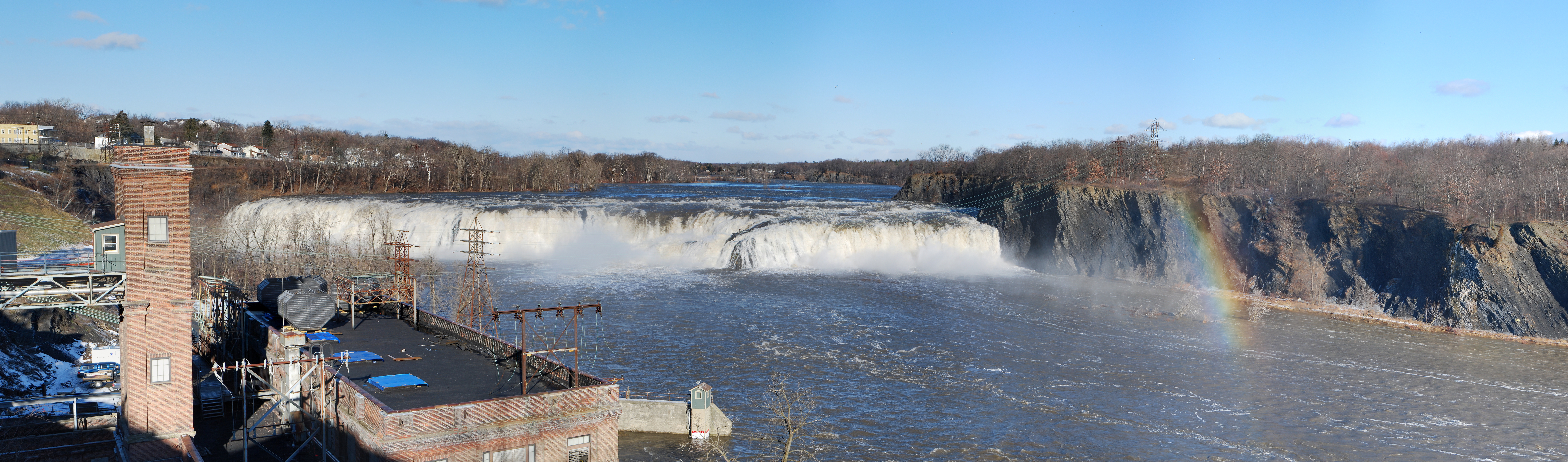 Cohoes Falls on the Mohawk River in Cohoes, New York, during winter, but after a warm spell, which caused local melting, adding to the typical seasonal flow of the river.